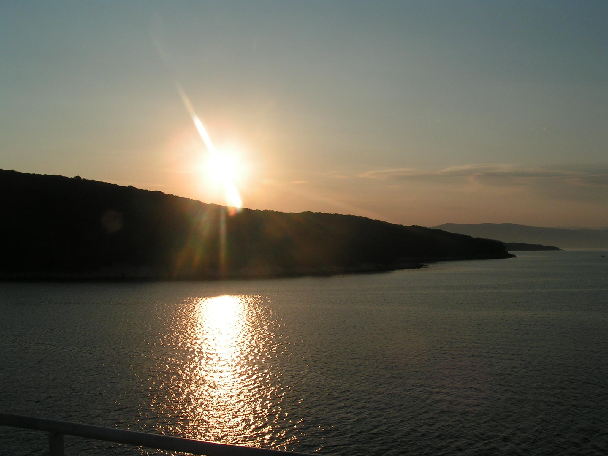 Sunrise at Srednja vrata.